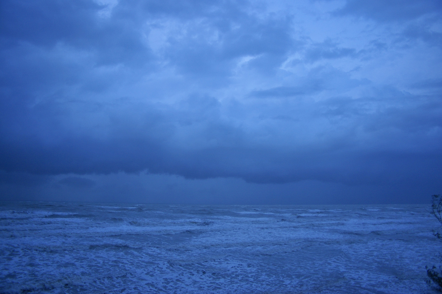 An evening monsoonal squall out to sea near Darwin, Northern Territory.